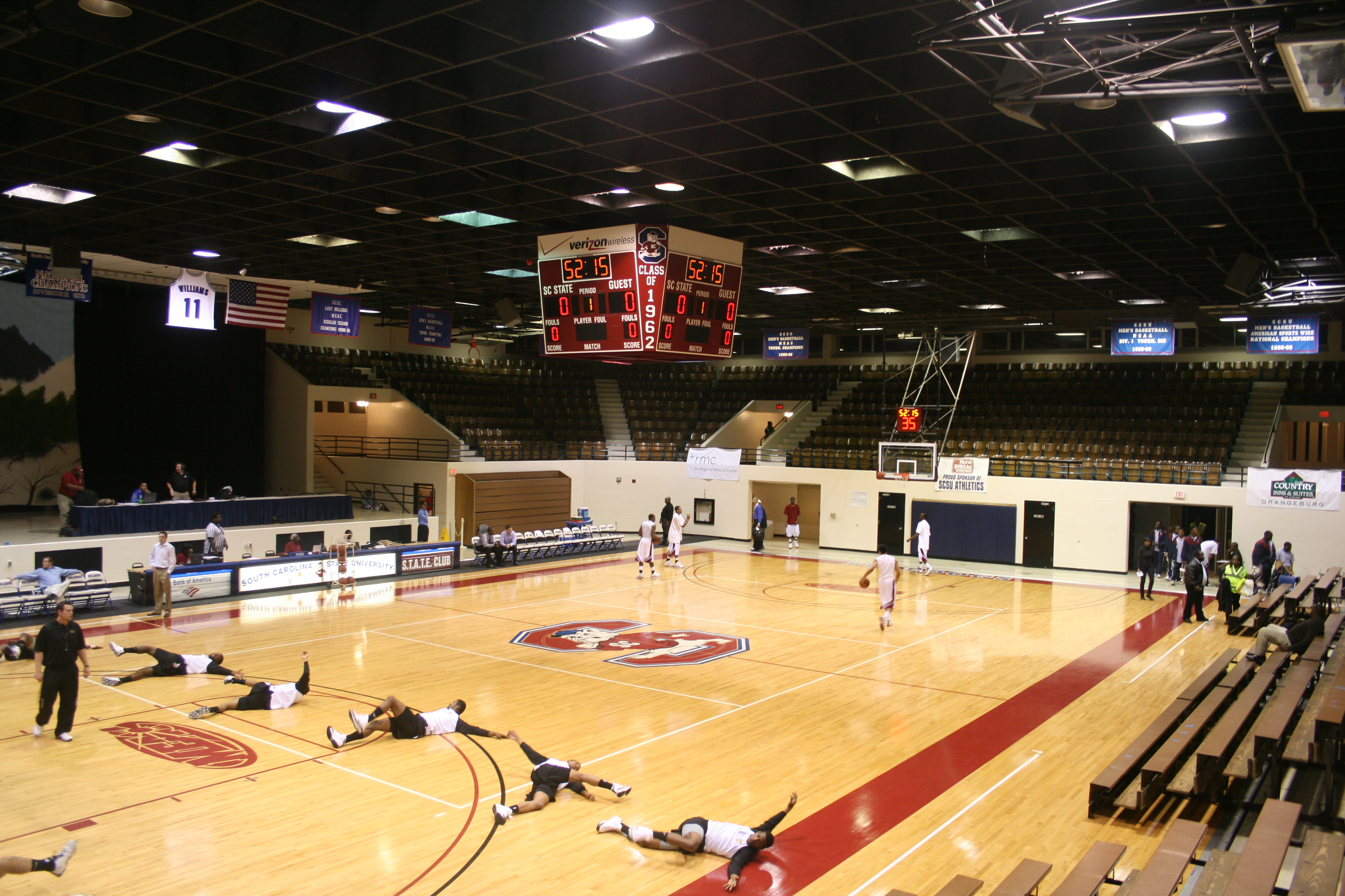 The SHM Memorial Center in Orangeburg, South Carolina on the campus of South Carolina State University